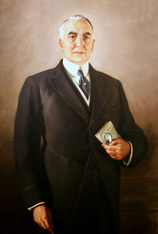 Official White House portrait of Warren G. Harding.